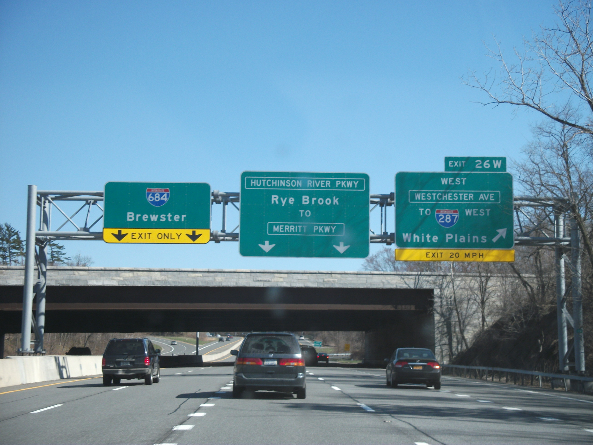 The Hutchinson River Parkway approaching exit 26W, Interstate 287 westbound in Harrison, New York.